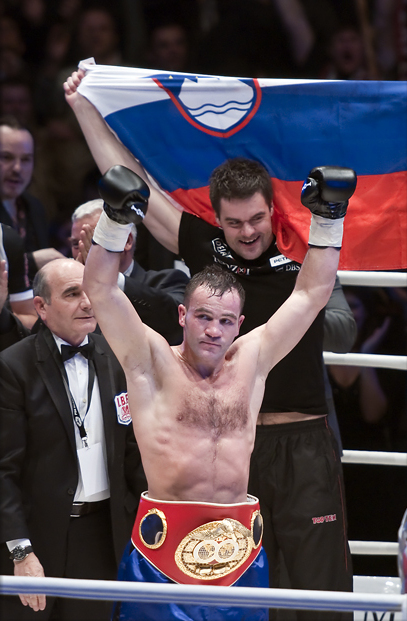 2011 boxing event in Stožice Arena